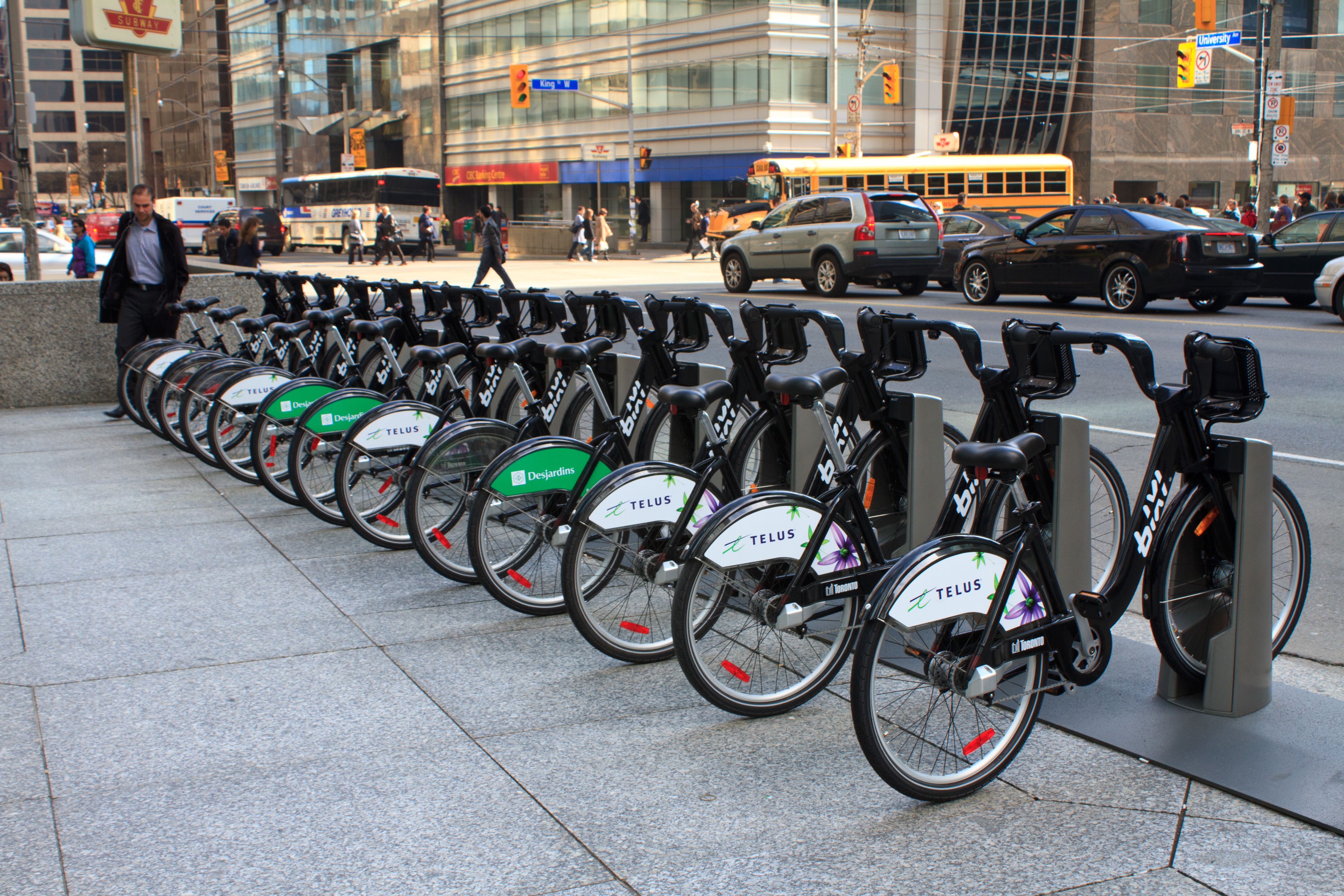 First shots from a new Canon EOS 7D